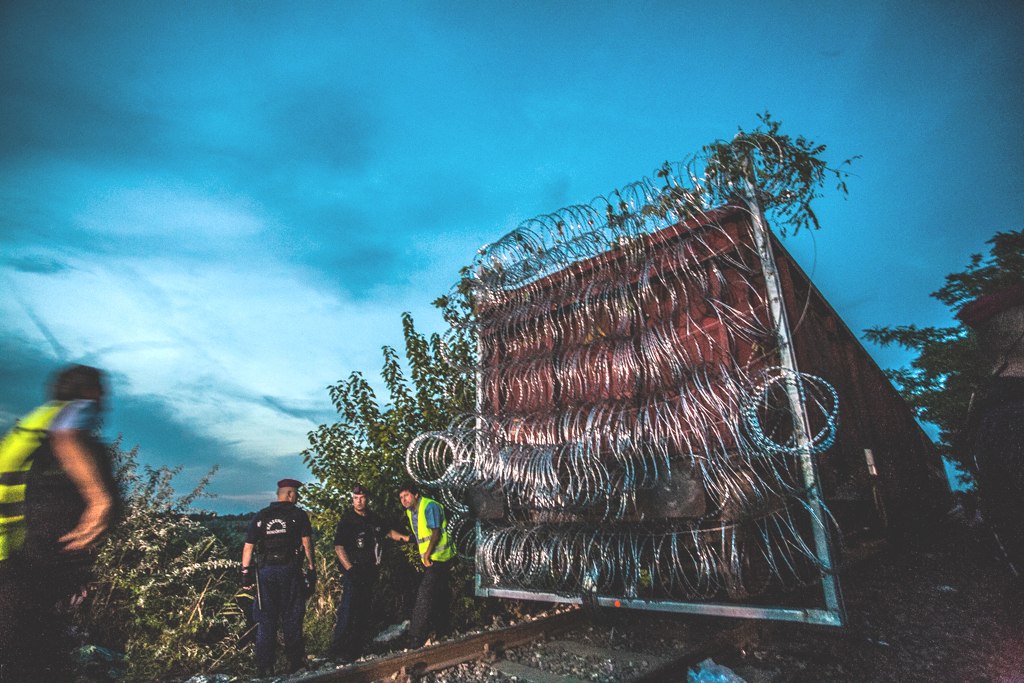 Railway wagon (H-RCH Eas-y; UIC number:31 55 5426 327-9) with barbed wire at Hungary-Serbia border barrier